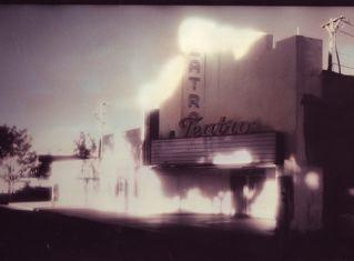 This is the Teatro, the studio Mark Howard created in the 90's in Oxnard, CA.